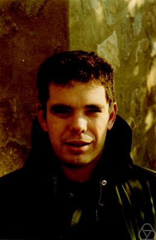 Michael Keane, Yale Univ. 1970